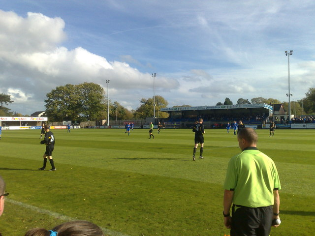 Stangmore Park, Dungannon This is Stangmore Park - home of Dungannon Swifts Football Club. It is sited on the corner of Far Circular Road and the Moy Road on the outskirts of the town and close to Moygashel village.